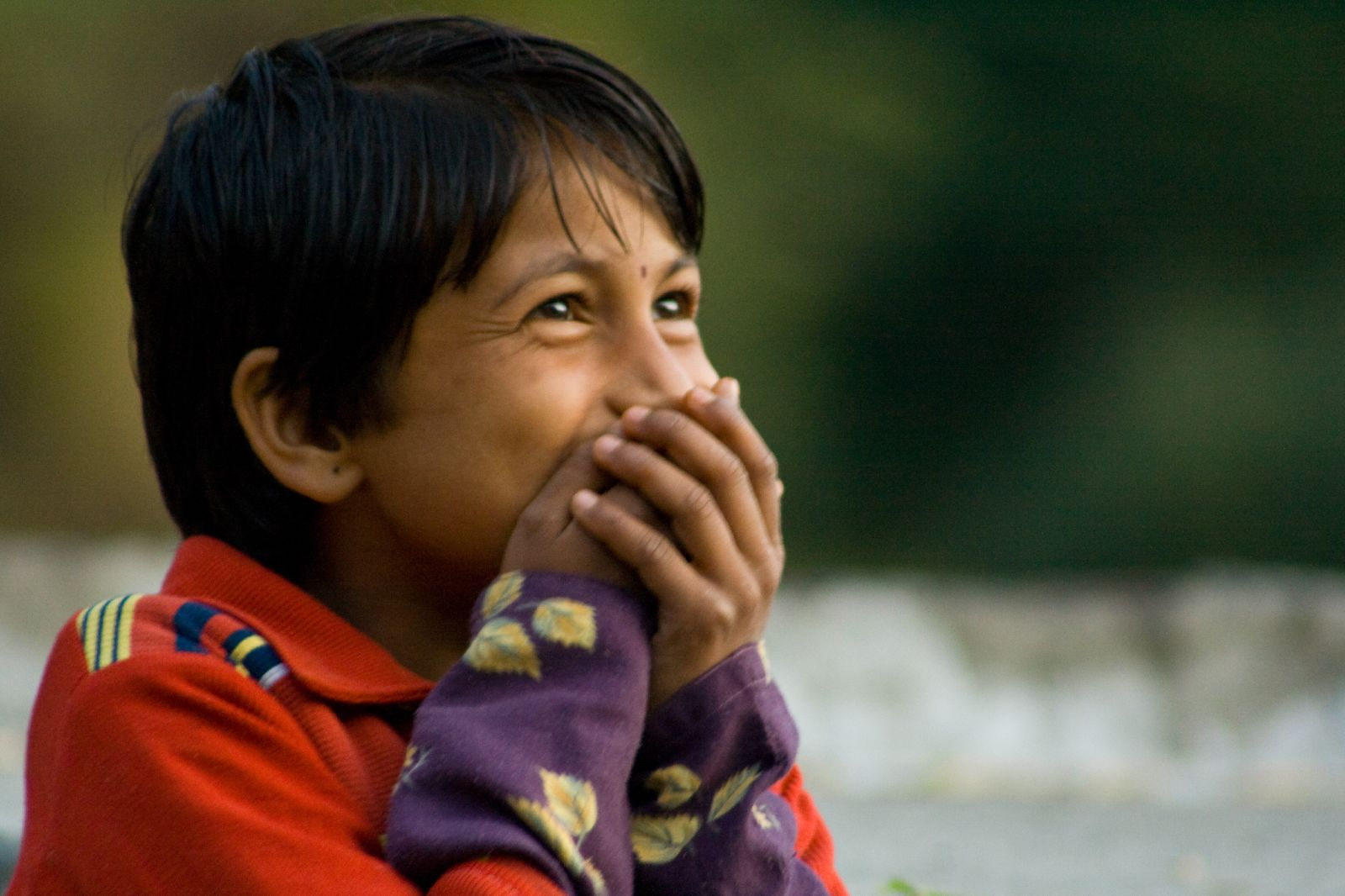 We all live with the objective of being happy, our lives are all different and yet the same Anne Frank